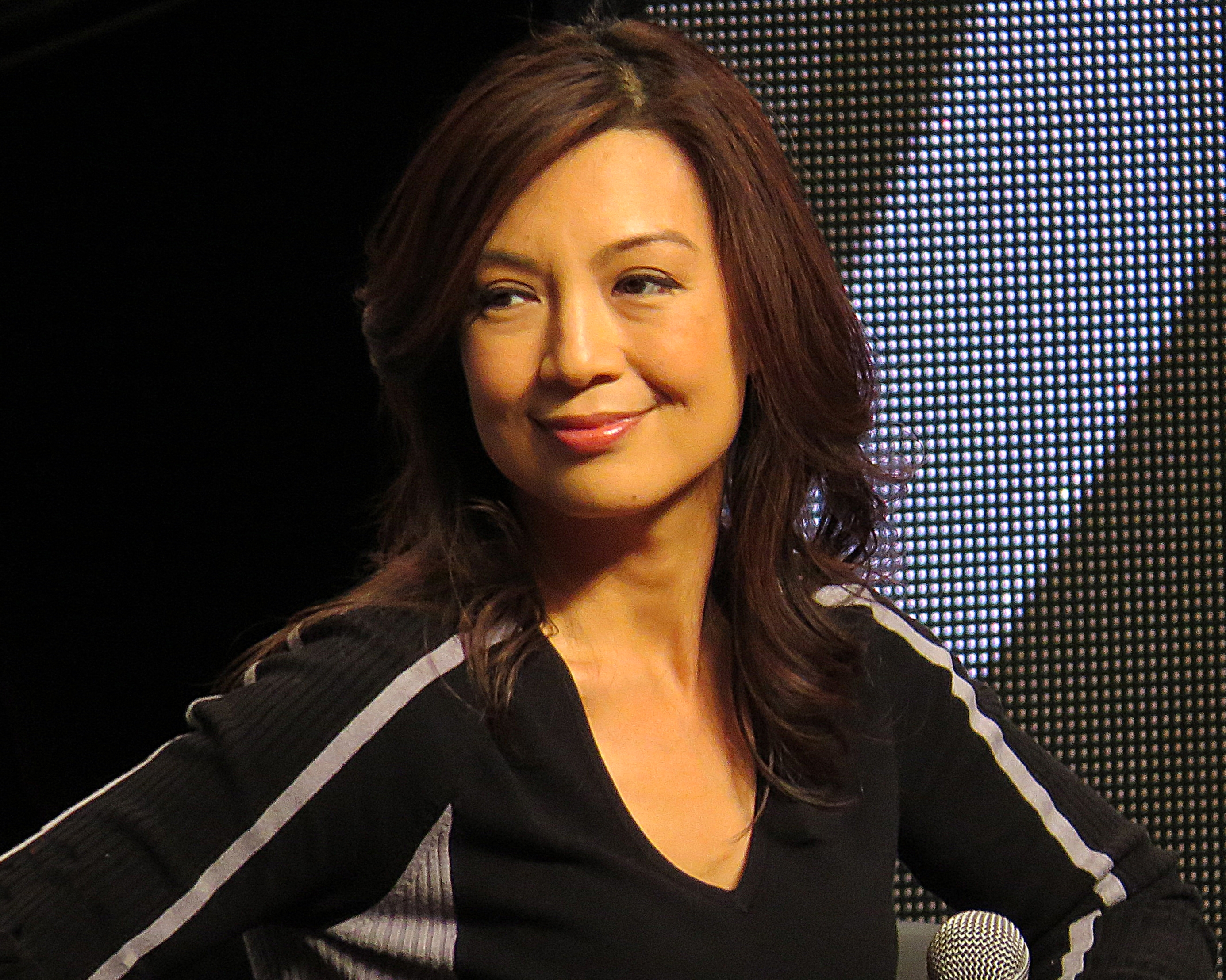 Ming-Na Wen is a Macau-born American actress. She stars as Melinda May in the ABC action drama series Agents of S.H.I.E.L.D.